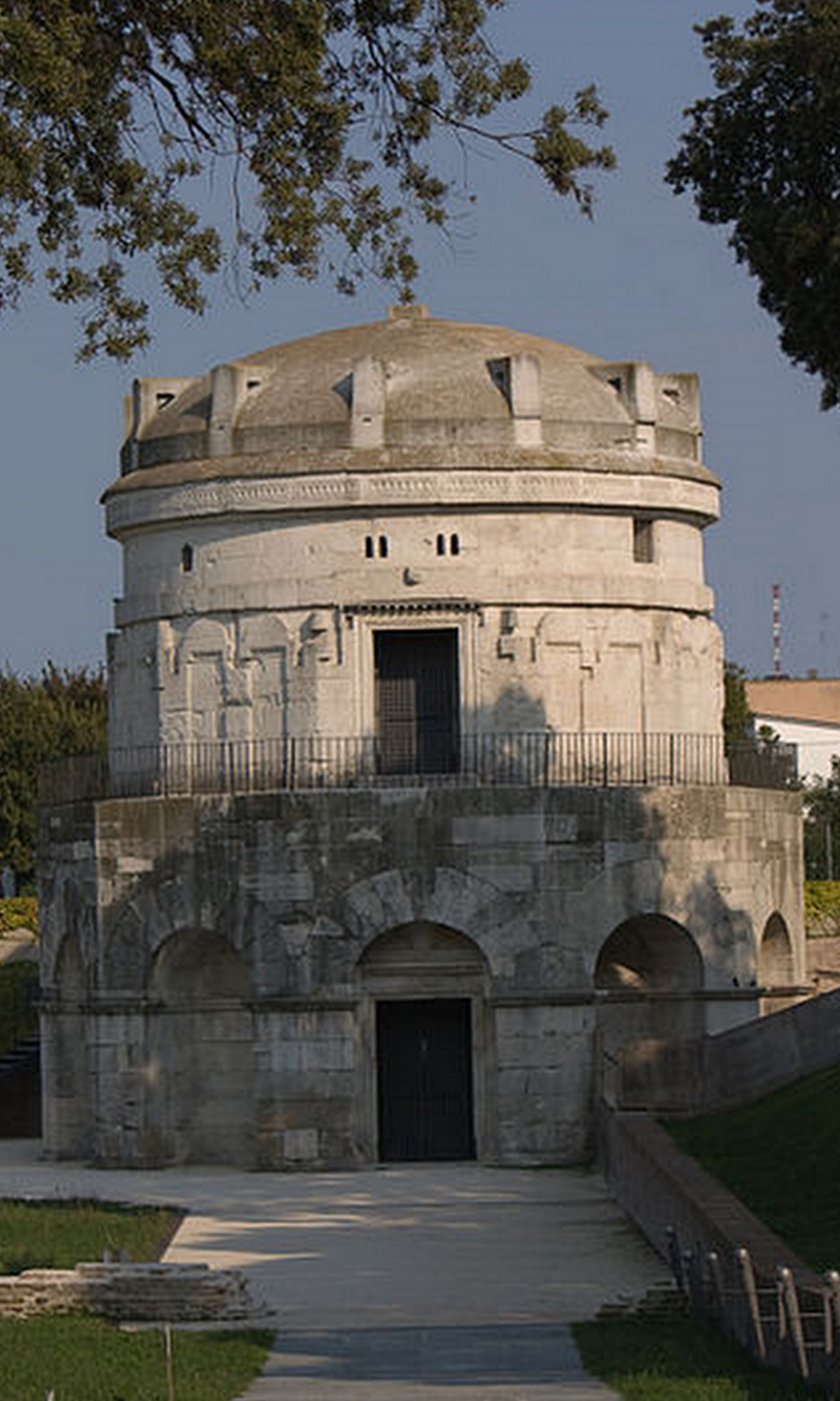 Picture of the Mausoleum of Theodoric the Great, in Ravenna, Italy